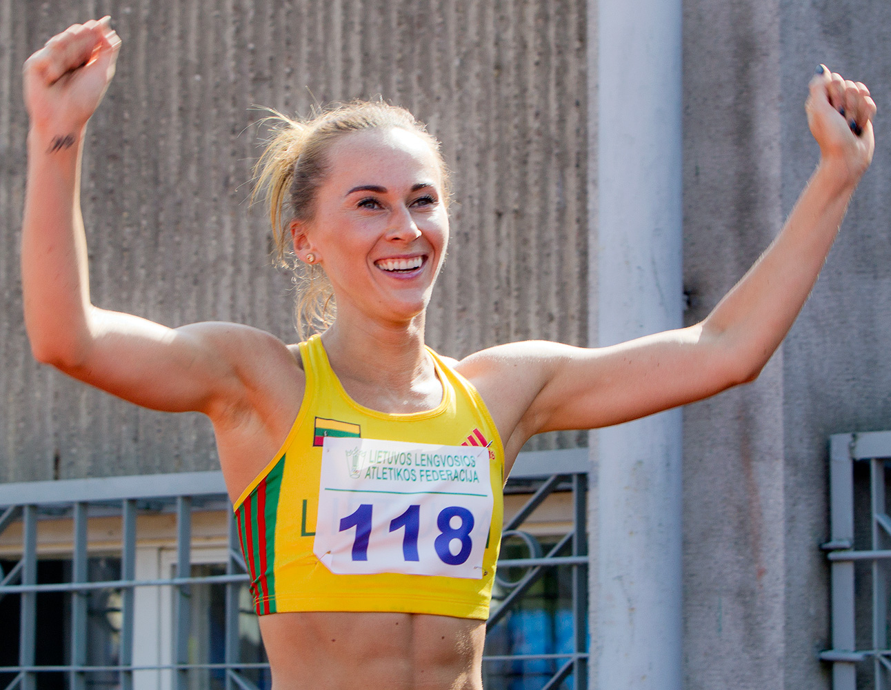 Sonata Tamosaityte at 2014 Lithuanian Championships in Athletics